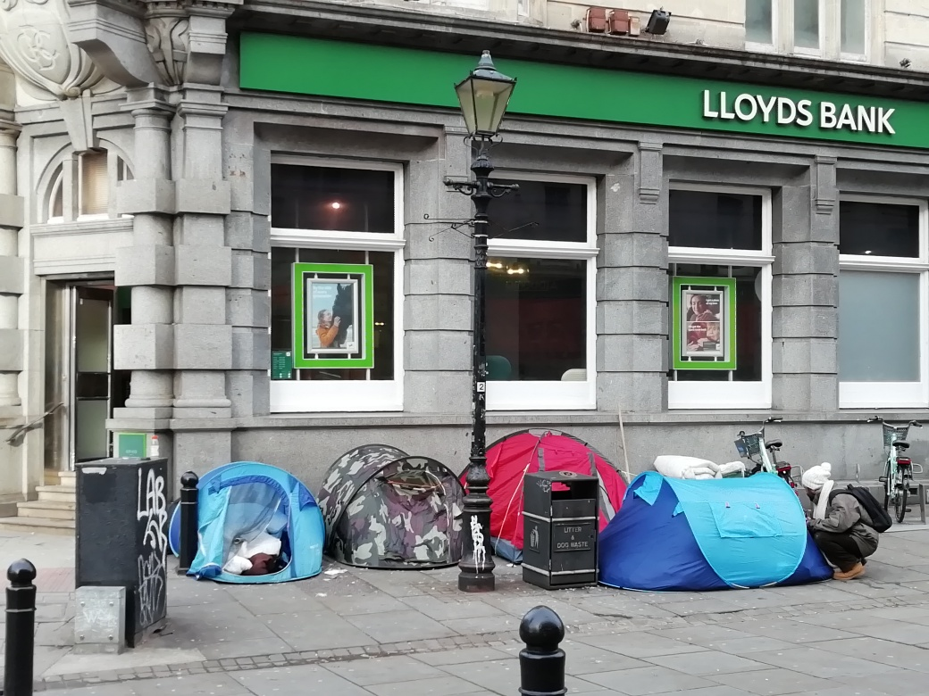 Brighton 2019, Castle Square - homelessness, tents